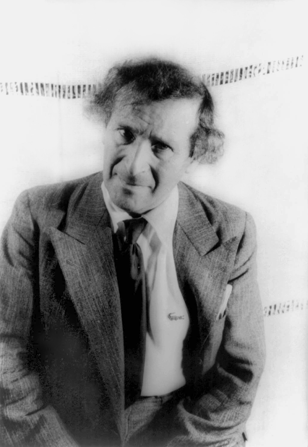 Marc Chagall, 4 July 1941